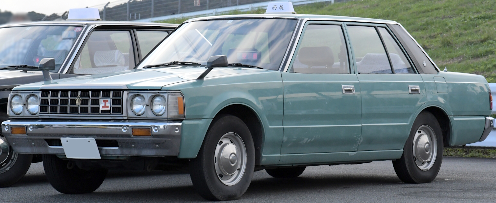 Toyota Crown Standard